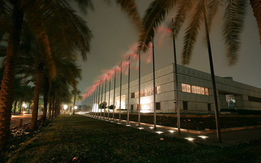 Conference Center on the grounds of the Bayan Palace in Kuwait City.